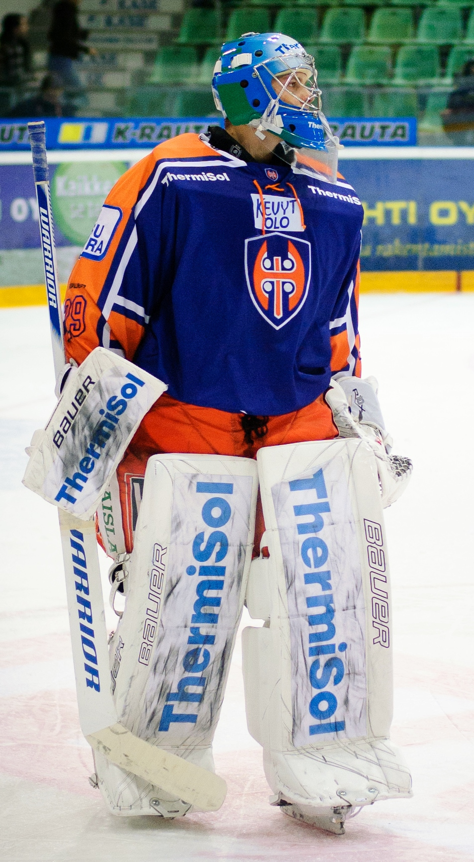 Finnish ice hockey goaltender Harri Säteri playing for Tappara Tampere against SaiPa Lappeenranta in the Finnish SM-liiga in Lappeenranta, Finland.